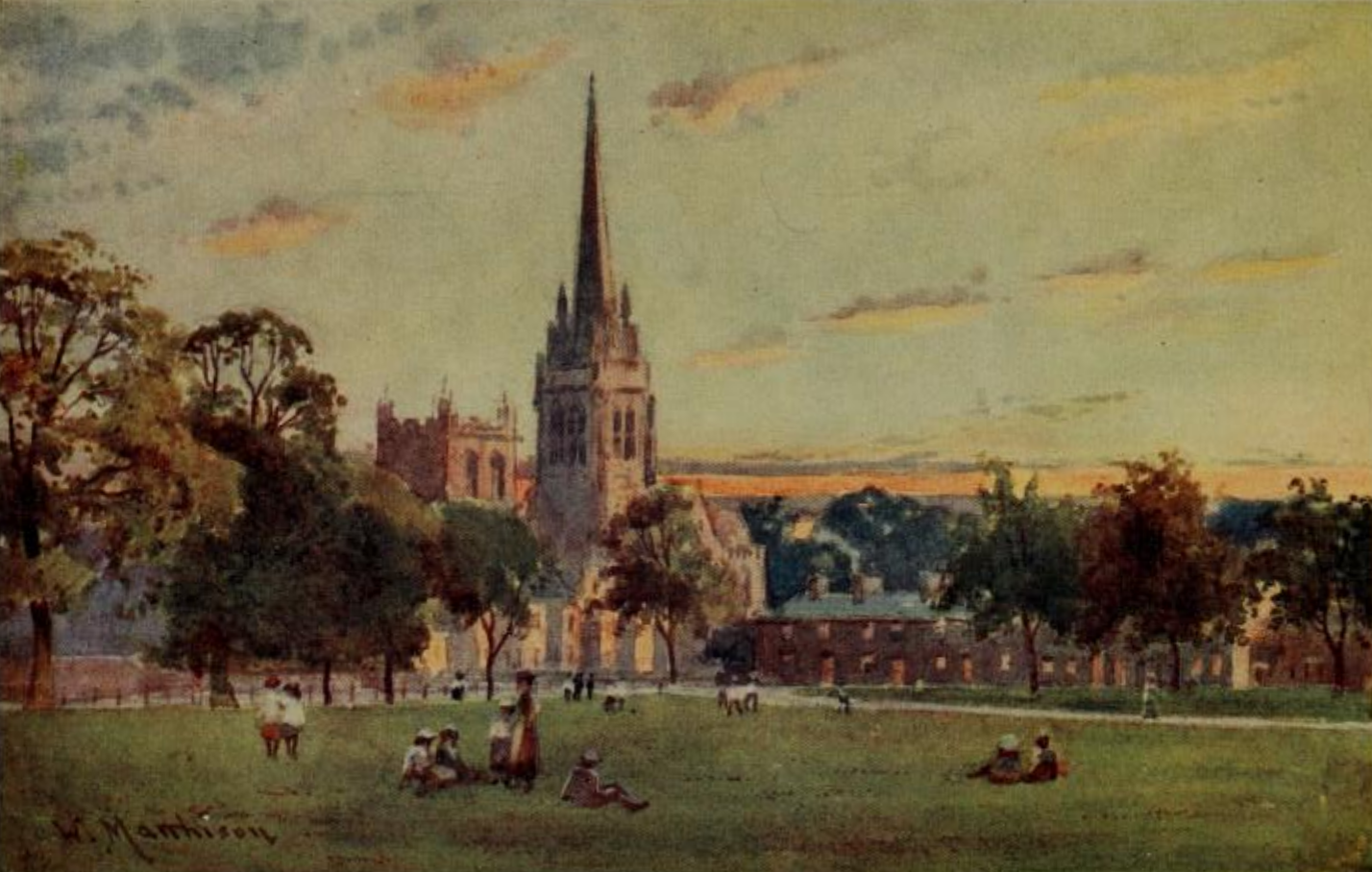 1907 Illustration of Parker's Piece (Cambridge) by William Matthison